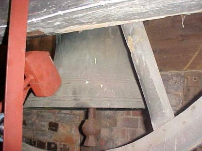 The bell in the tower of St Paul's Church, Stockingford